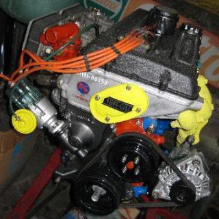 Toyota 18RG